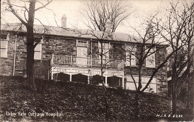 Old postcard of Ebbw Vale Cottage Hospital